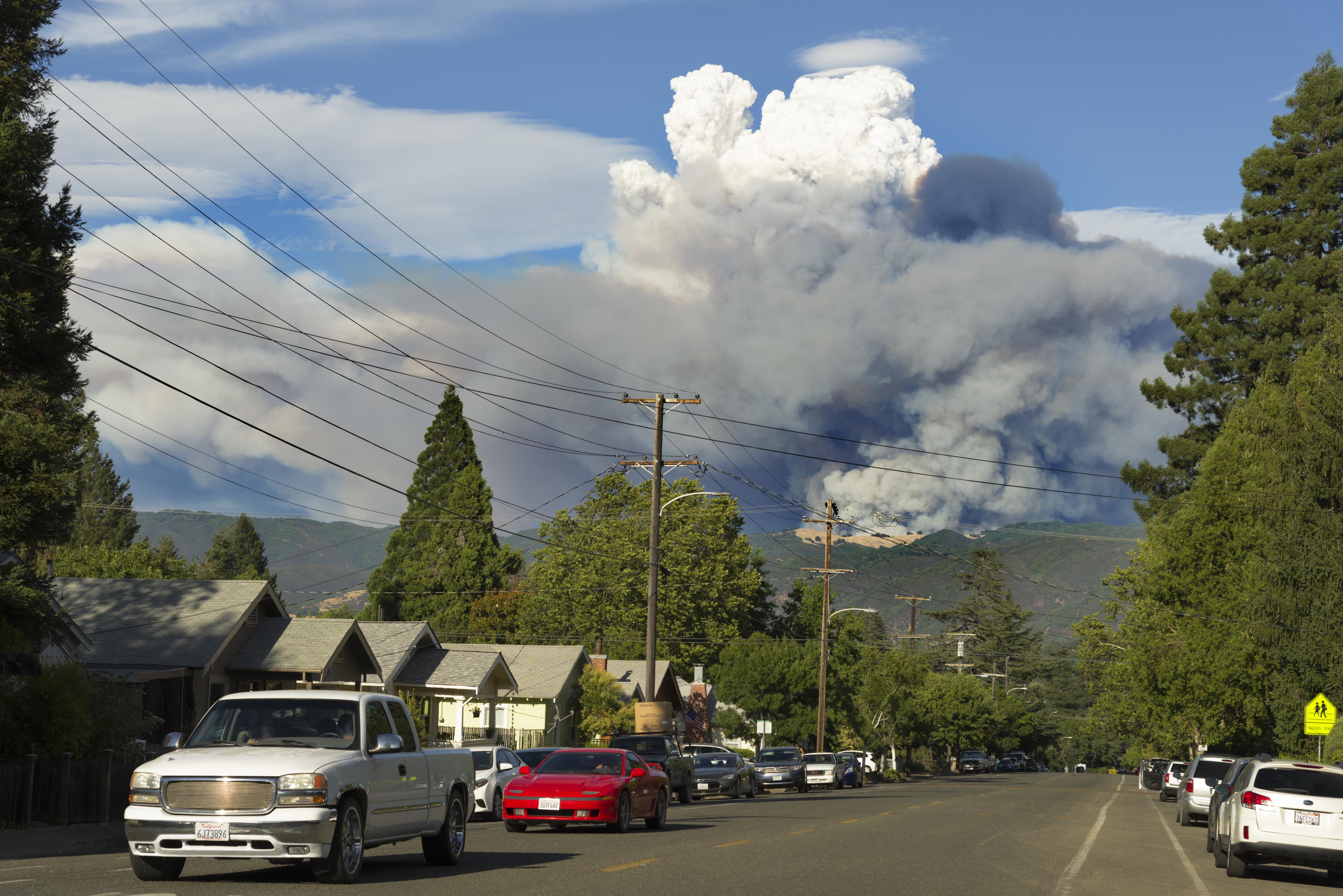 Nobody I met seemed particularly concerned about this huge wildfire looming over Ukiah. Brave or stupid? This was taken just with 65mm in full frame. Definitely not a telephoto.